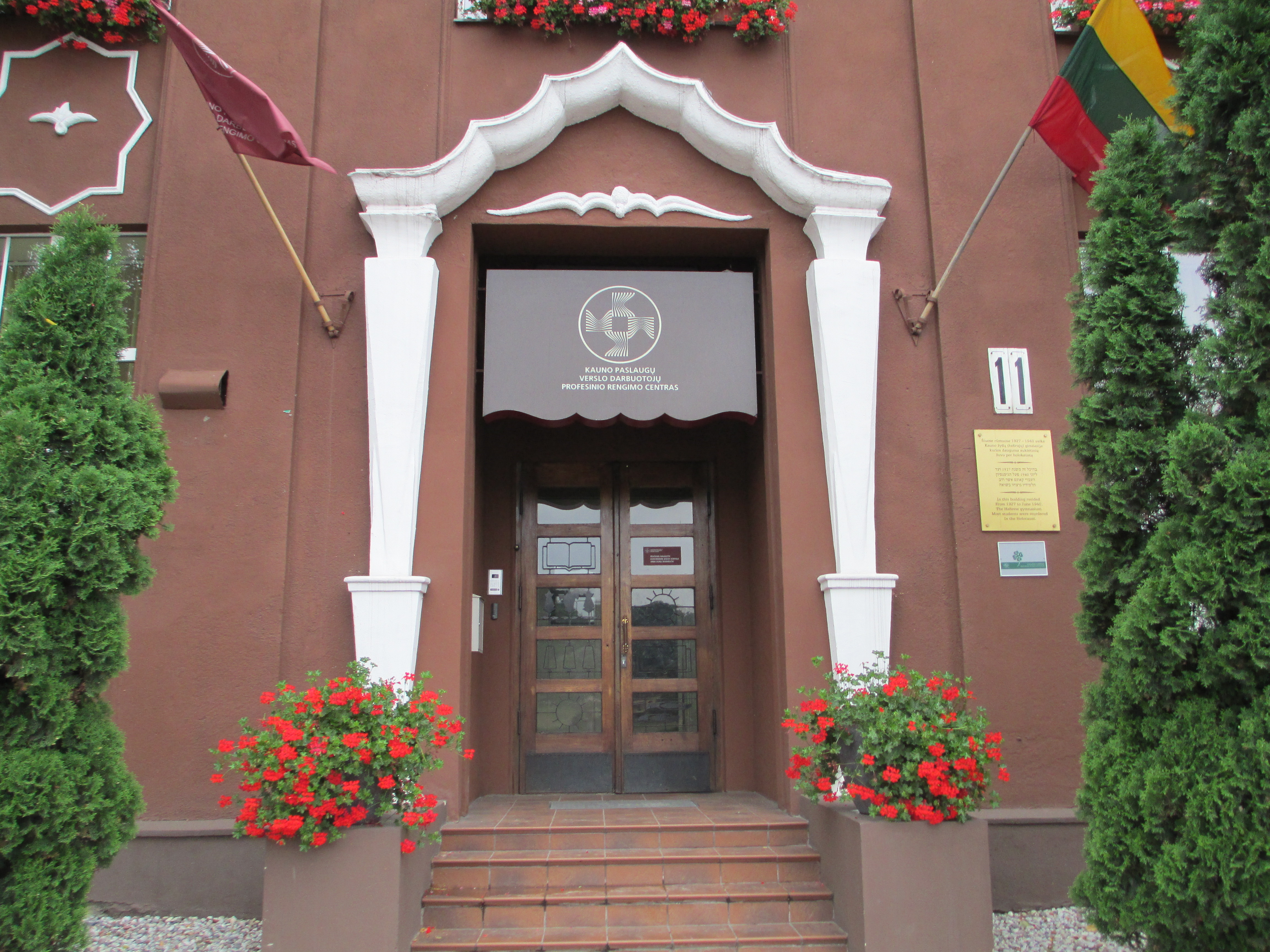 entrance to the former hebrew gymnasium in kaunas